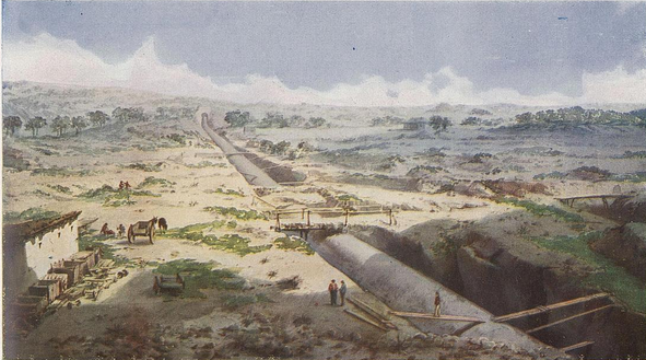 Image of Albelda siphon, singular work of the Aragón and Catalonia channel. In its time it was the largest forced concrete pipe in the world.